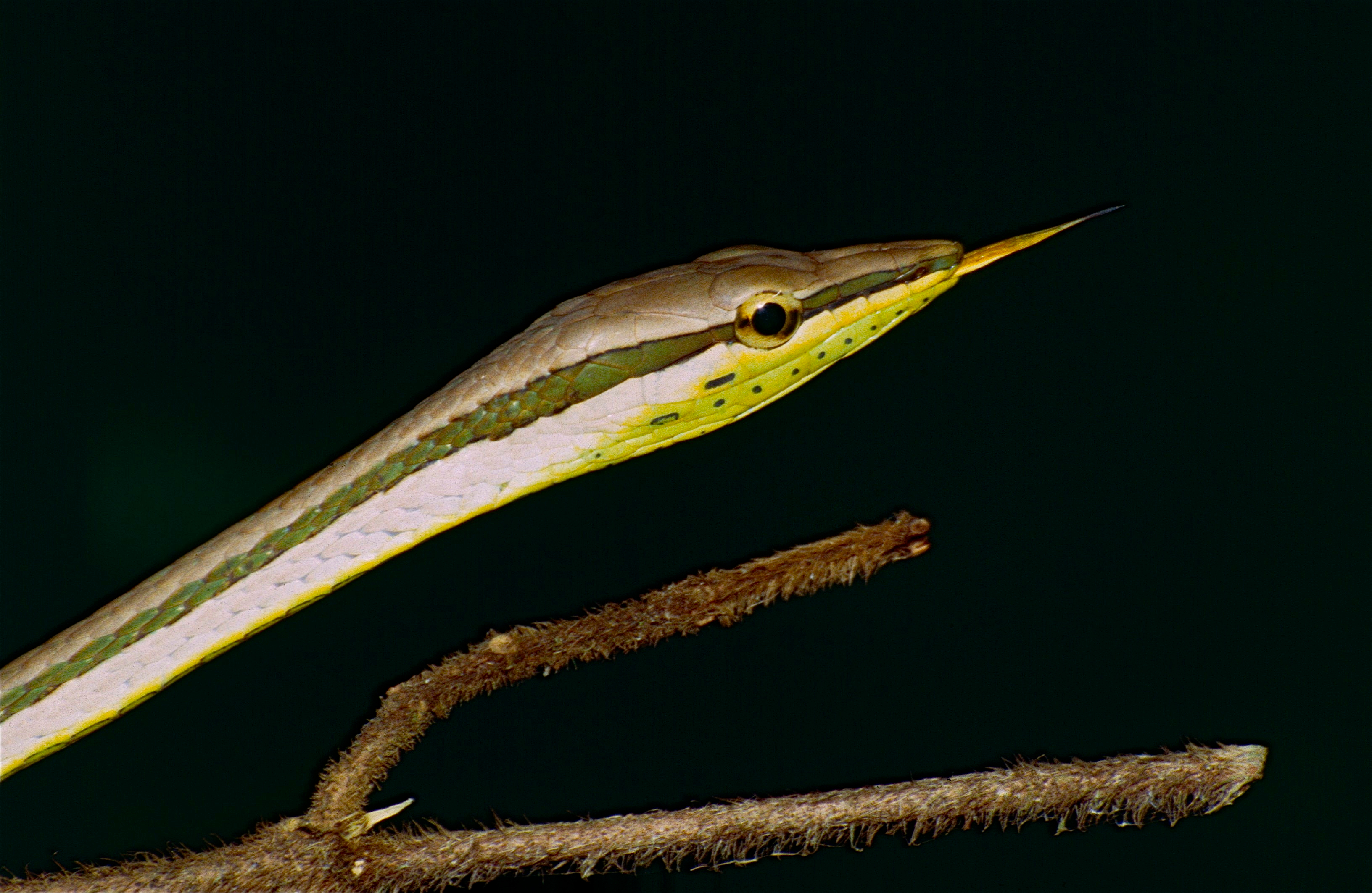 Route de Regina, Guyane, FRANCE Scanned Slide from 1998